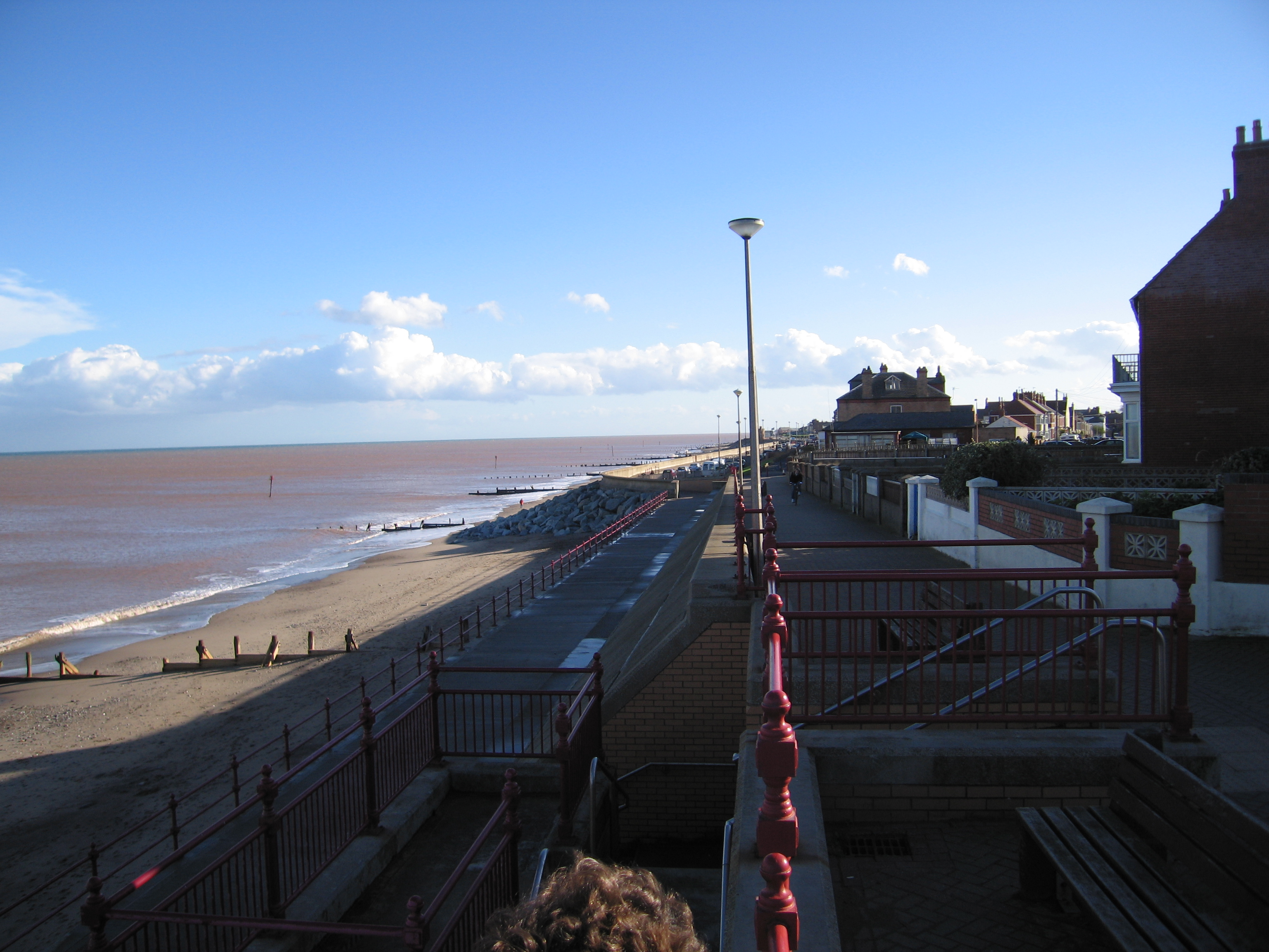 Sea front at Withernsea, East Riding of Yorkshire, England.